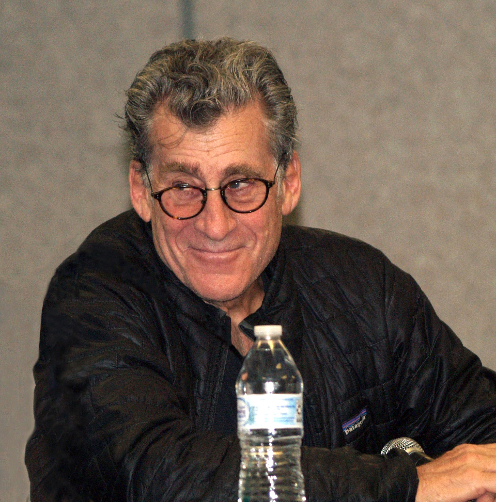 Actor Paul Michael Glaser, photographed during a panel discussion dedicated to the 1975 – 1979 TV series Starsky & Hutch at the Meadowlands Exposition Center in Secaucus, New Jersey on Sunday, April 29, 2018, Day 3 of the East Coast Comicon. This photo was created by Luigi Novi. It is not in the public domain, and use of this file outside of the licensing terms is a copyright violation.